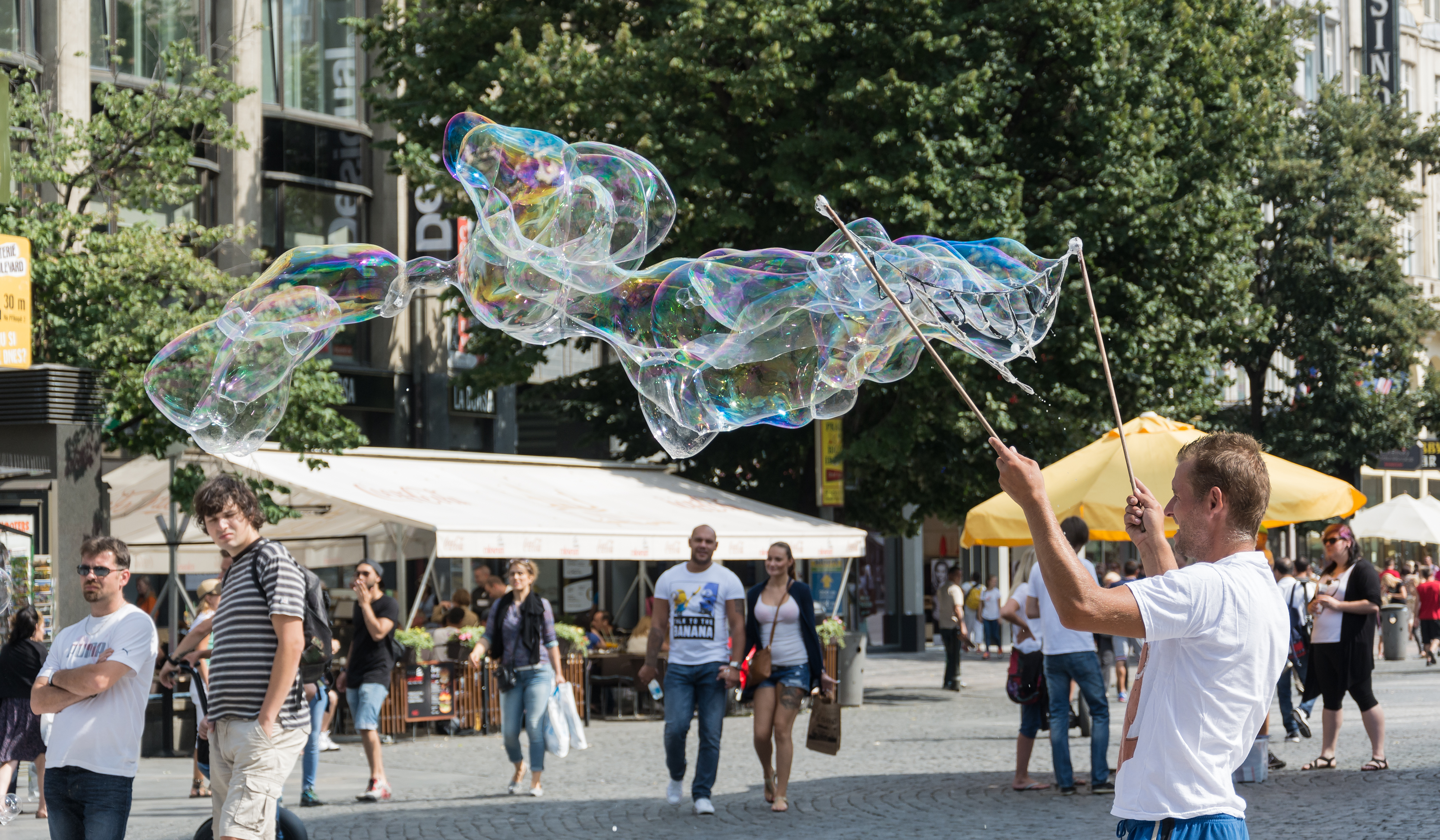 Street performer in Prague